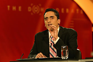 Arsalan Iftikhar